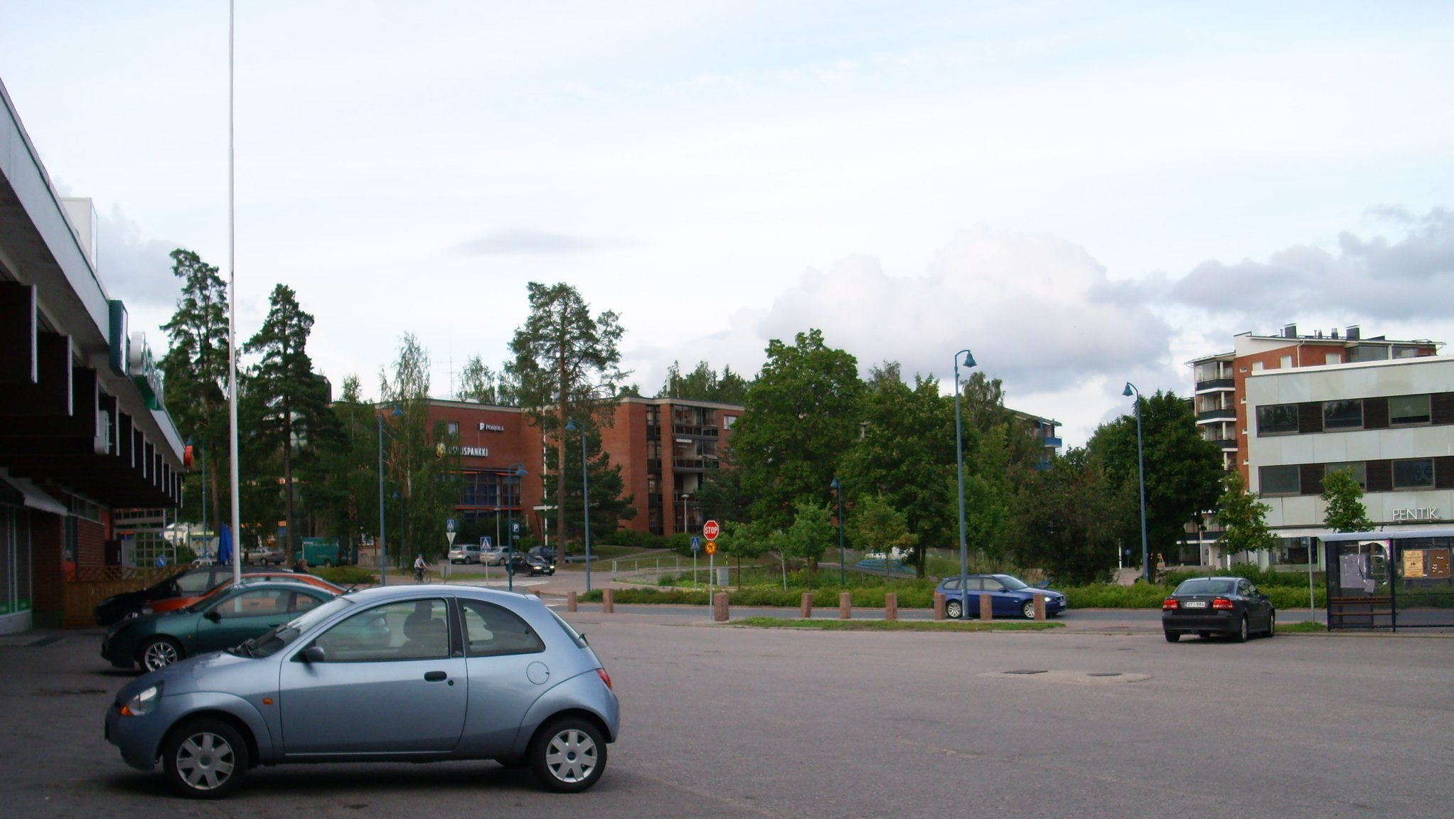 View to central Nummela in Vihti, Finland.